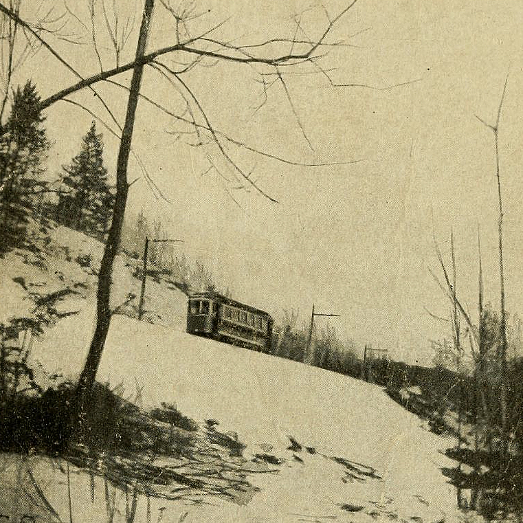 An Amherst & Sunderland Street Railway Company car passes The Notch 1903, 3 years prior to the companies lease and subsequent acquisition by the Holyoke Street Railway.